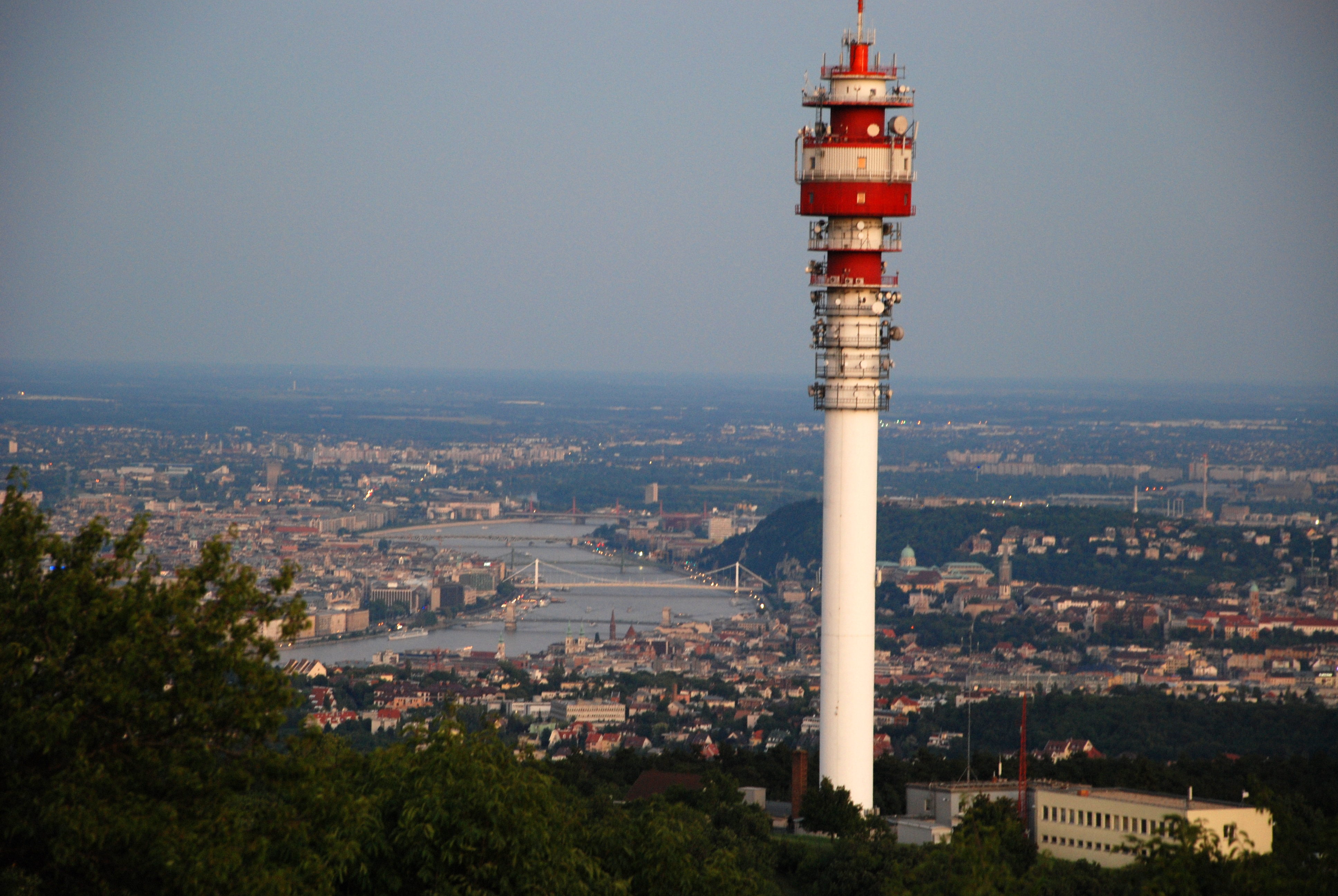 View from Hármashatárhegy